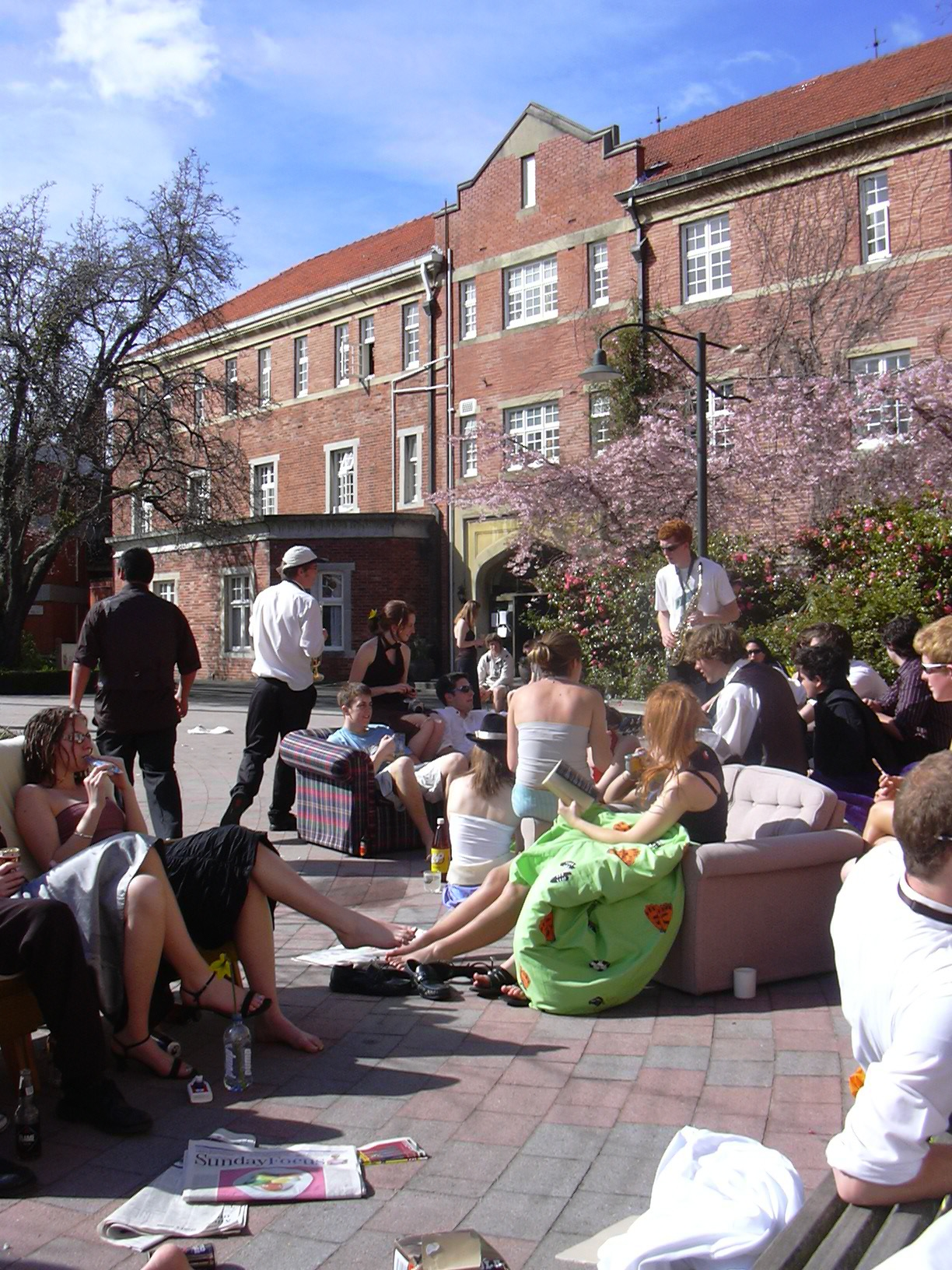 Selwyn College, Dunedin, New Zealand. New Zealand Historic Places Trust Register number: 2217.